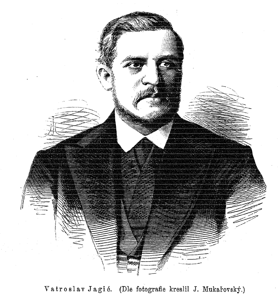 Portrait of Vatroslav Jagić, Croatian philologist.